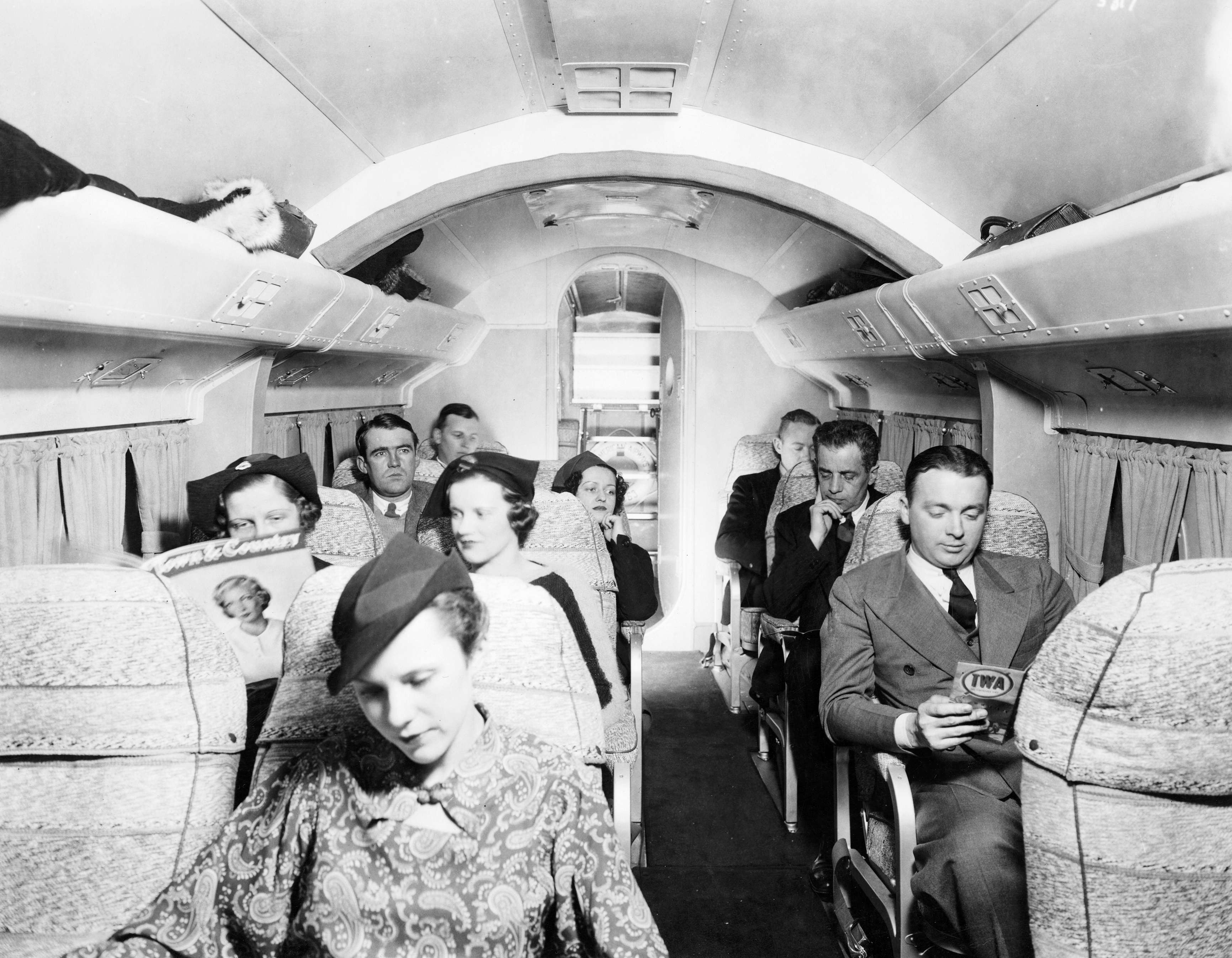 Posed interior view of passenger cabin of a Pan American Airways (PAA) Sikorsky S-43A Amphibion (Baby Clipper) with seated passengers. Rear access door is open showing a Pan American Airways life ring stowed behind the ladder. Note man at right foreground reading a TWA timetable. Circa 1936.